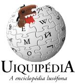 Uncyclopedia's (Portuguese) parody to Wikipedia's logo